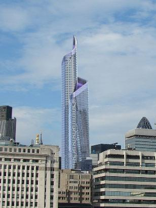 "Artist's impression of the Bishopsgate Tower, a major new skyscraper being planned for London's financial district. This is viewed from London Bridge."